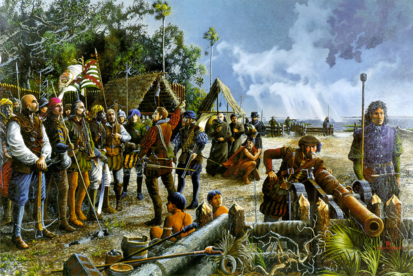 FIRST MUSTER: The first muster of militia troops in the continental United States took place on September 16, 1565, in the newly established Spanish presidio town of St. Augustine.